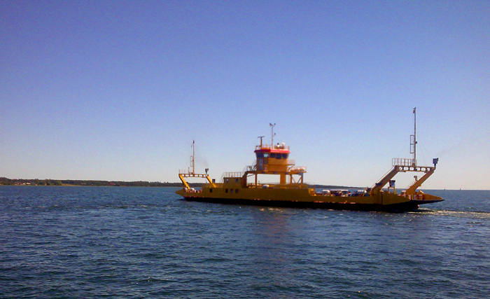 The island of Fårö is separated from Gotland by the Fårö-strait, but connected by two ferries, operated by the Swedish National Road Administration. It has an area of 111.35 square kilometers, whereof 9.7 km² are water areas %u2014 bogs %u2014 or islets. The trip takes just 10 minutes.